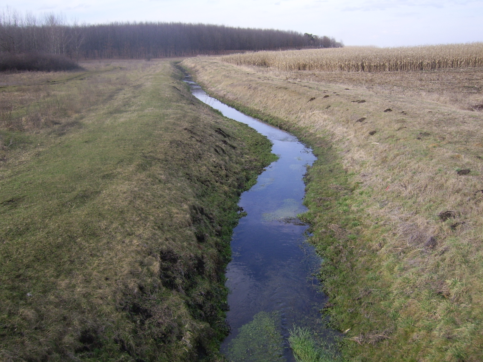 Canal, near Perkedpuszta